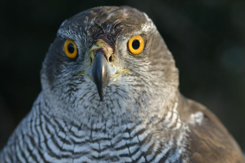 Northern goshawk (Accipiter gentilis), Sarród, Hungary